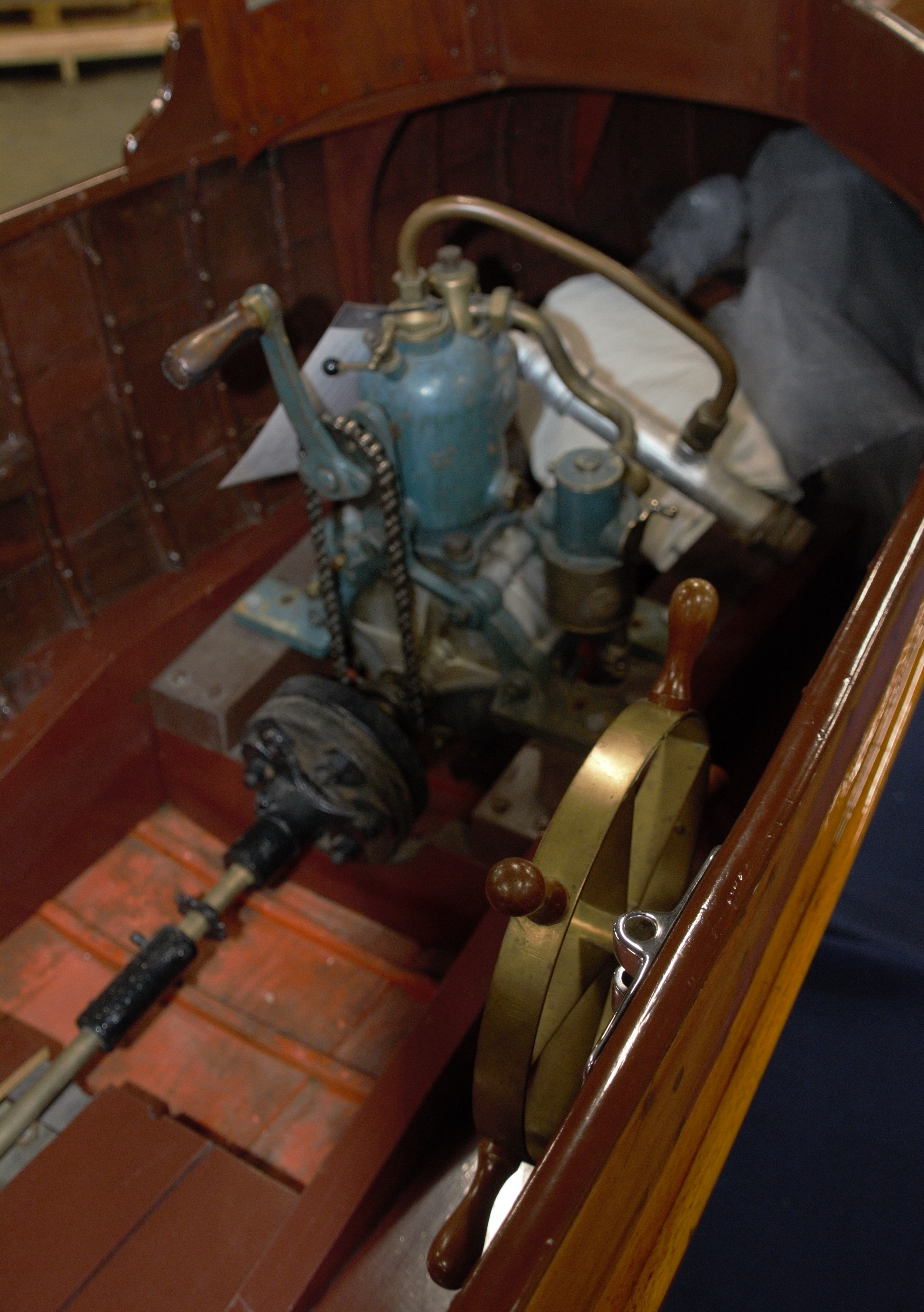 De Dion-Bouton petrol engine from 1901. Water cooled, one cylinder, 3.5 hp.